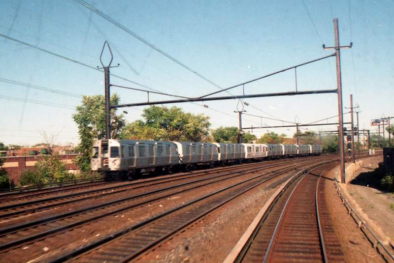 Train Ride to Newark (1997)